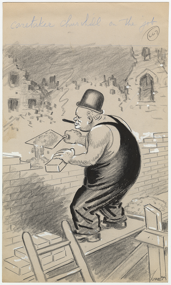 Title: Caretaker Churchill on the Job Creator: John Francis Knott, 1878-1963 Date: May 28, 1945 Series: 17 - John Knott portrait drawings and cartoons/mode/exact; Knott cartoons, Dallas Morning News/mode/exact Description: The context for this cartoon is explained in an accompanying editorial entitled 'Poor Preparation Made to Try War Offenders.' Dallas Morning News, May 28, 1945, Section 2, Page 2. Part Of: Belo records, 1842-2007 Physical Description: 1 drawing: 38 x 22.7 cm File: a2010_0001_17_02_01_090_caretaker_opt.jpg Rights: Please cite DeGolyer Library, Southern Methodist University when using this file. A high-resolution version of this file may be obtained for a fee. For details see the web page. For other information, . For more information and to view the image in high resolution, View John Knott's World War II Cartoons: knott ww2/field/all/mode/all/conn/and/cosuppress/ View the John Knott Portrait Drawings and Cartoons series: 17 Knott/ View the Belo Records, 1842-2007